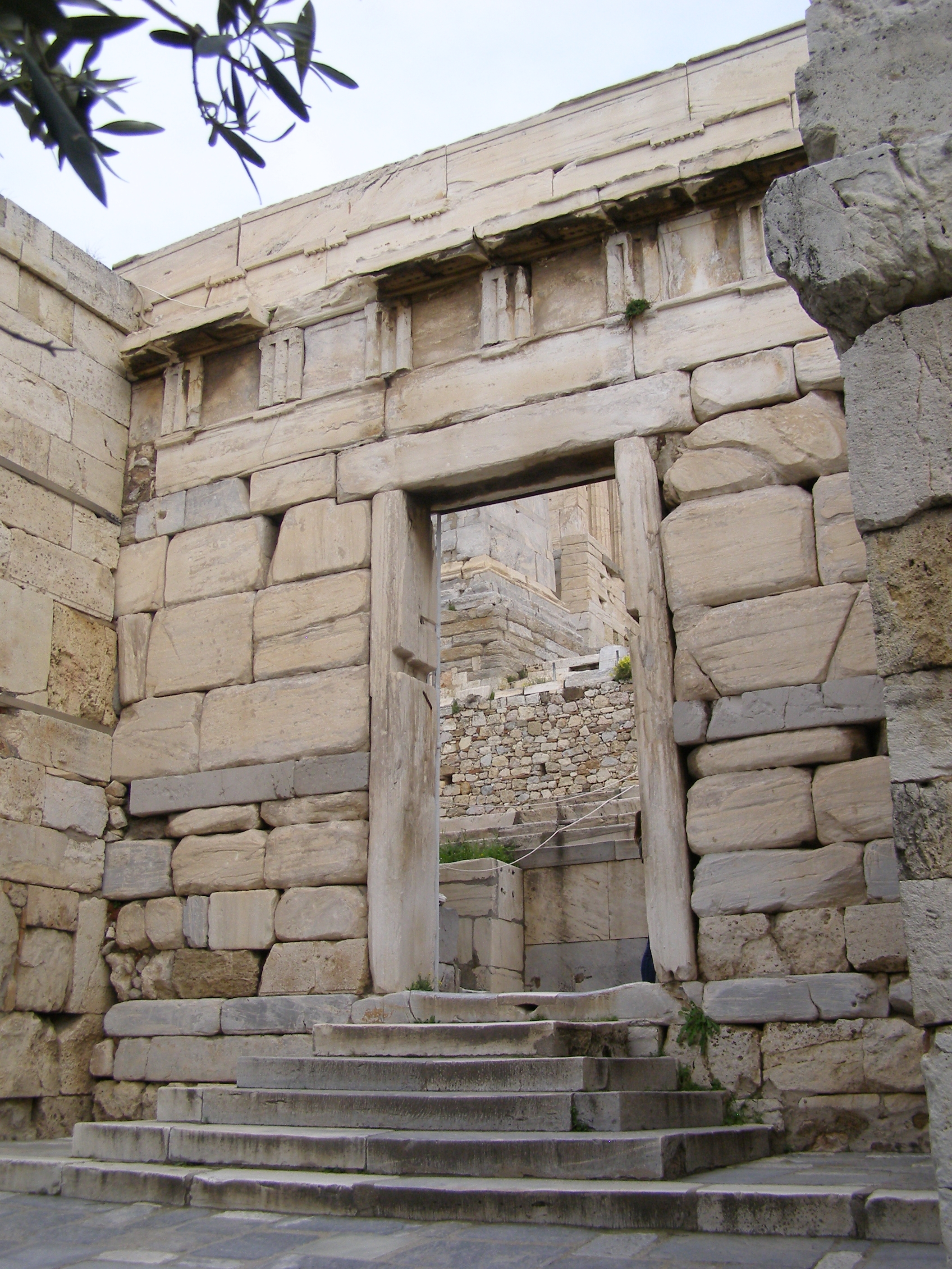 Athens - Acropolis